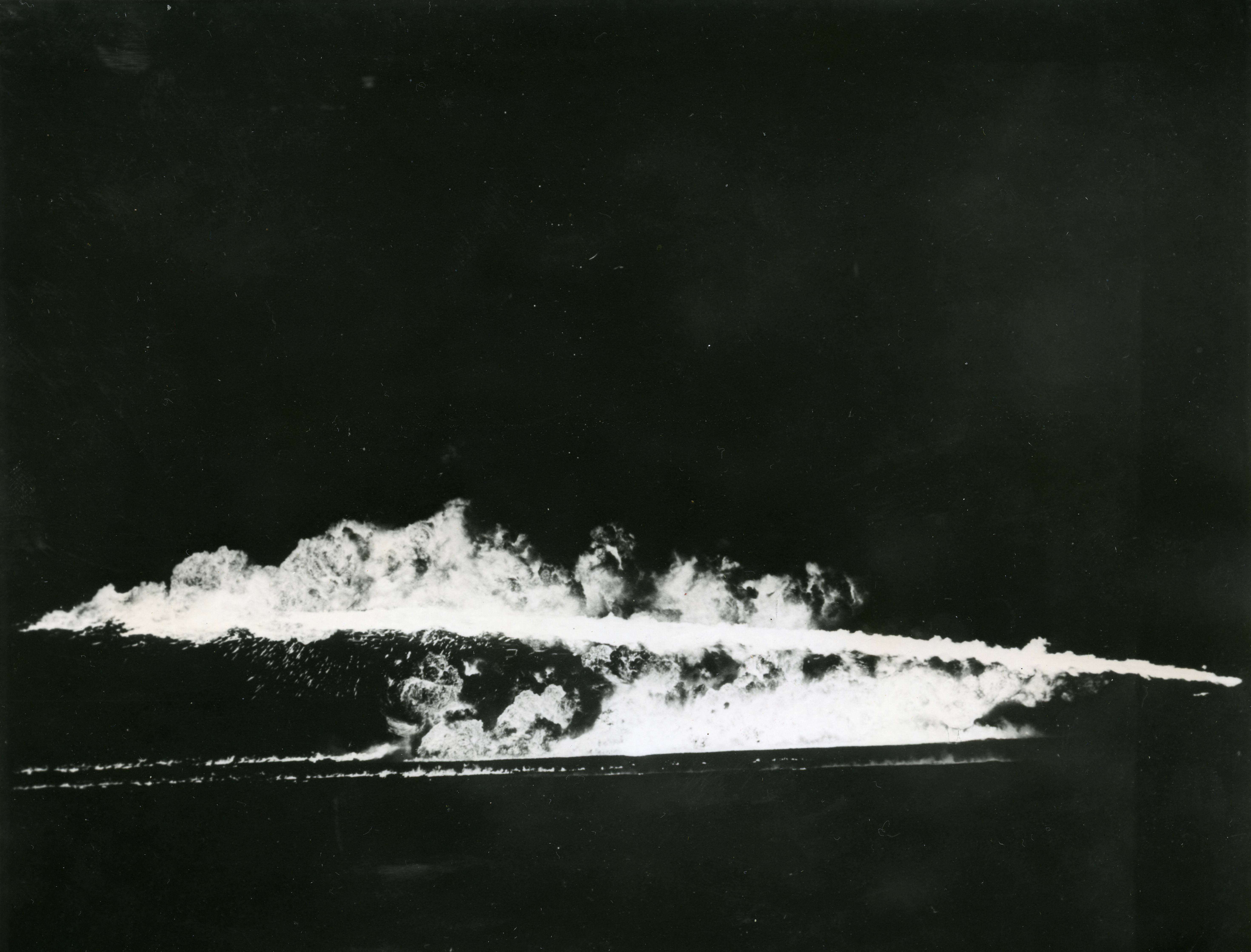 Pacific--Spouting flame like some terrible dragon, the Army's new flame throwing tank spews a solid stream of devastating fire in a night demonstration at a Pacific base. Developed in Lt. Gen. Robert C. Richardson's Pacific Ocean Areas command, the new weapon uses an oil-like substance to blanket Japanese positions with flaming death.